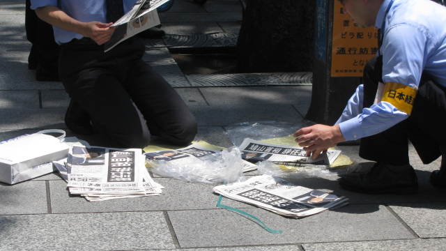 Newspaper extra of Nihon Keizai Shimbun that the news of Prime Minister Hatoyama Yukio announced his resignation.